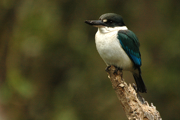 Collared Kingfisher (Todiramphus chloris sordida) Photographed at Wynnum, SE Queensland, Australia